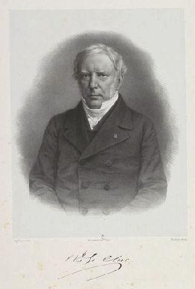 Author Auteur:Joseph-Victor Le Clerc